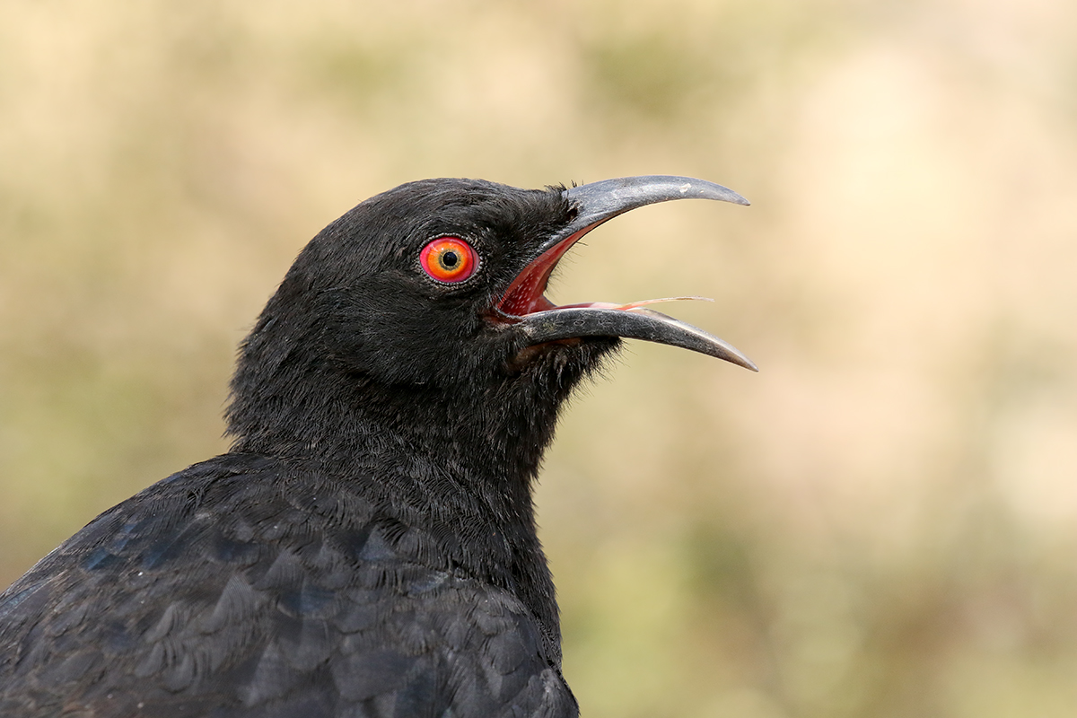 Strangways, Vic. Cooling at the bird bath in a party of about 8 on a very hot day.